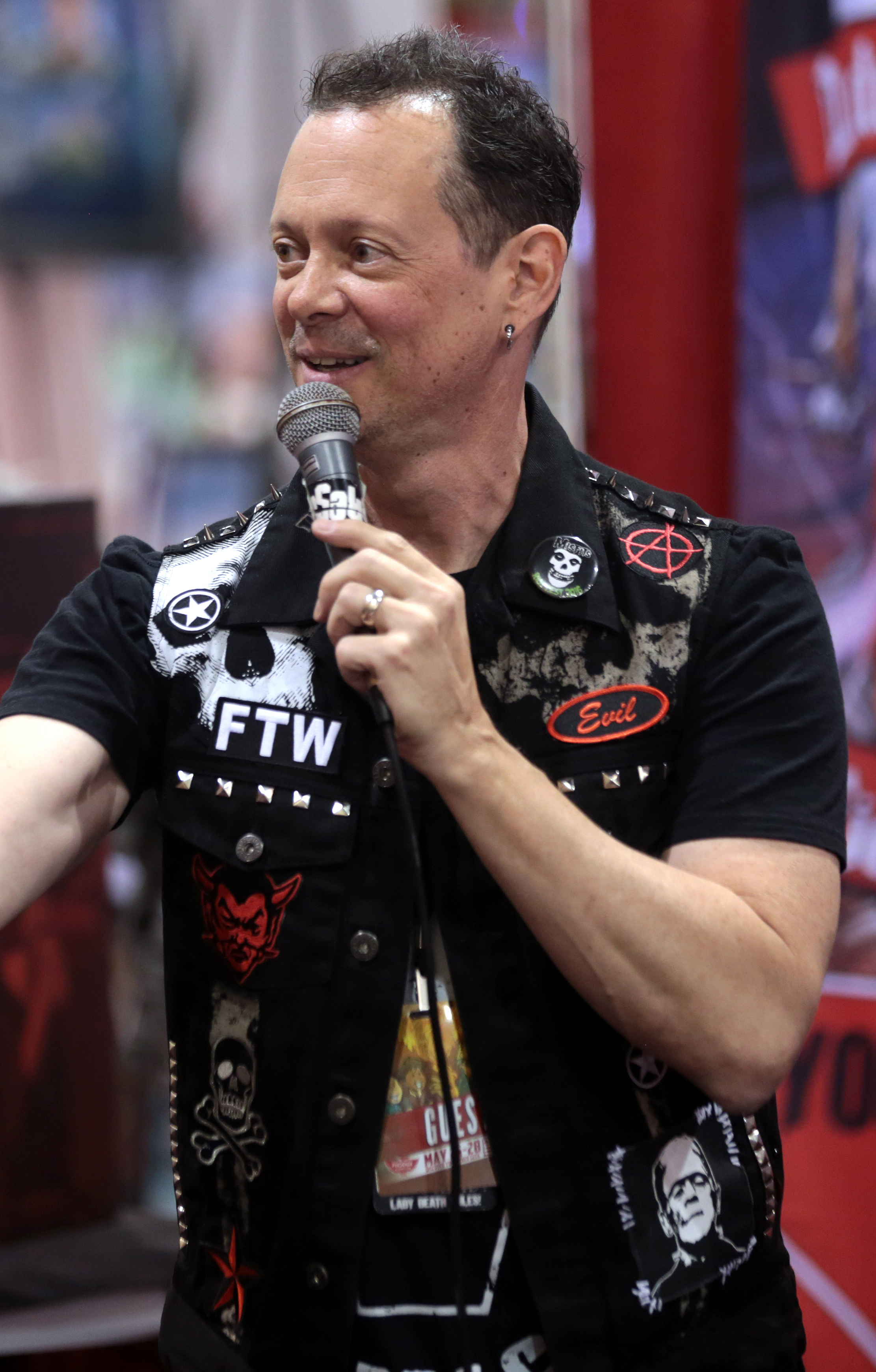 Brian Pulido speaking at the 2017 Phoenix Comicon in Phoenix, Arizona.